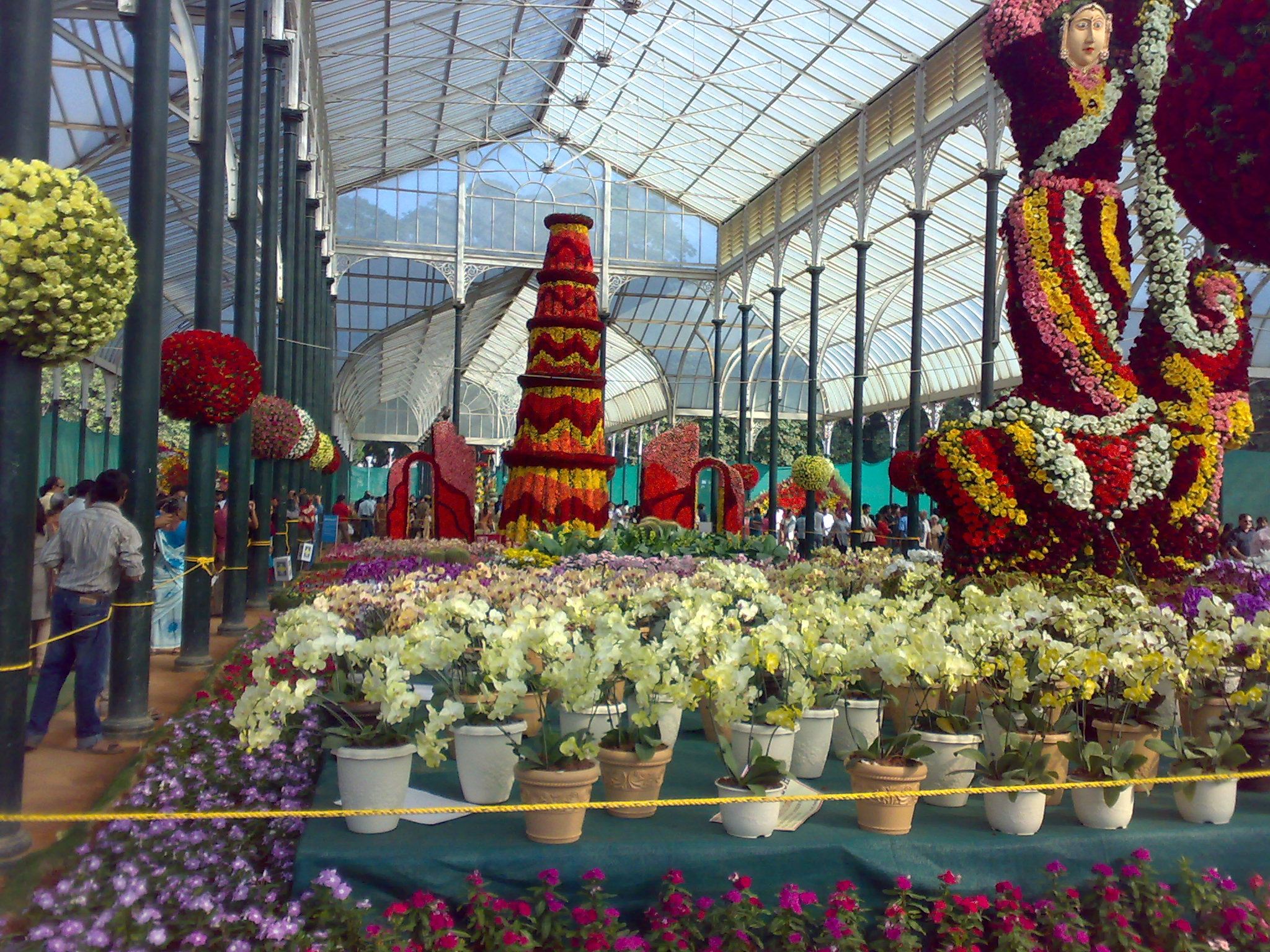 A glimpse of Flower Show which is held in Lal Bagh,Bangalore twice a year.